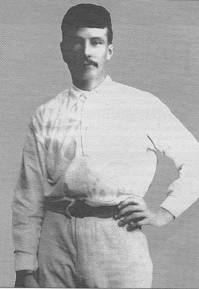 Ivo Crapp in the early 1900s